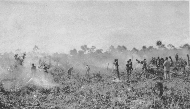 Men clear area for airfield on Kiriwina, South Pacific after Operation Chronicle.